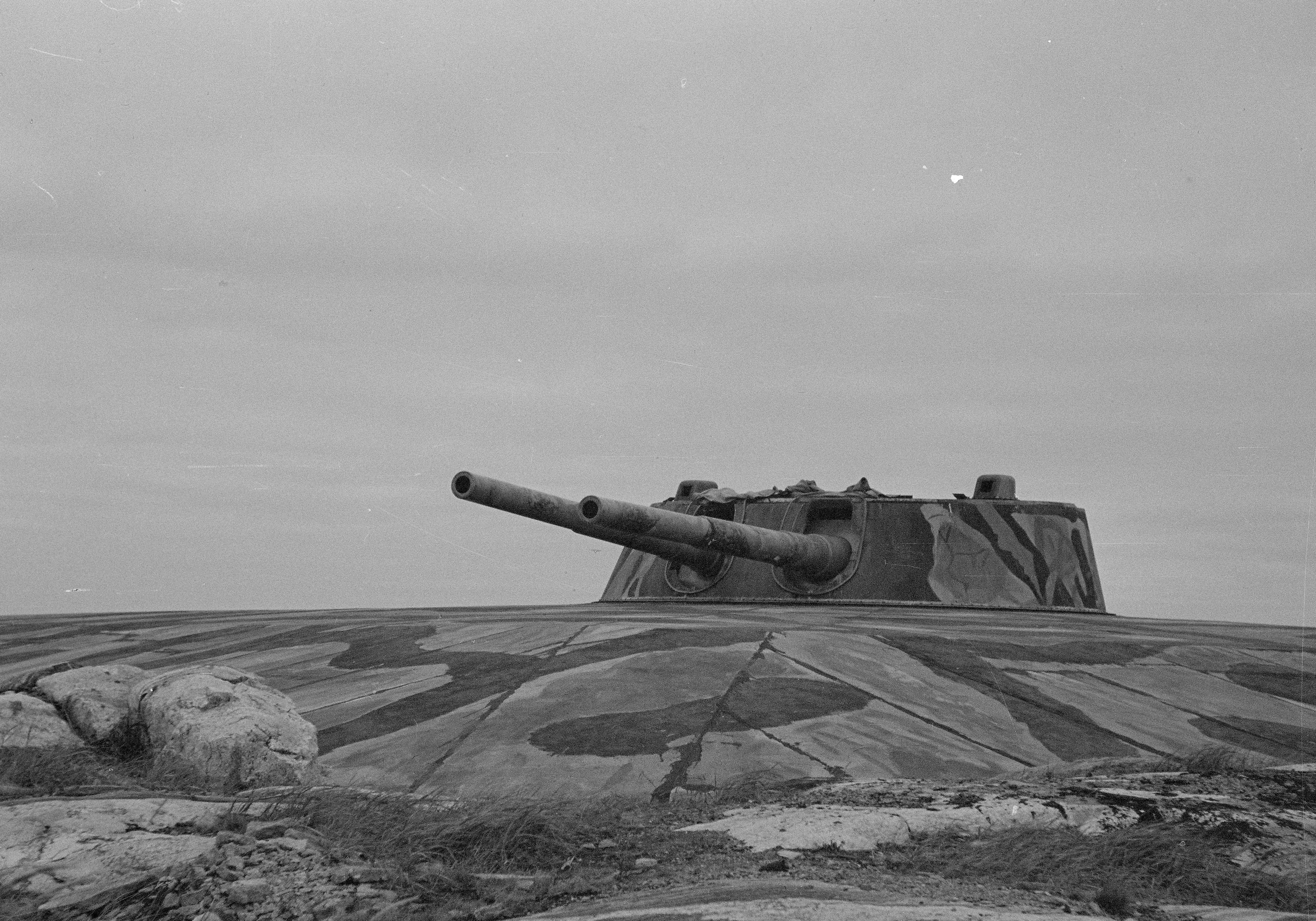 Dual 305 mm guns in a turret on Finnish island Mäkiluoto.